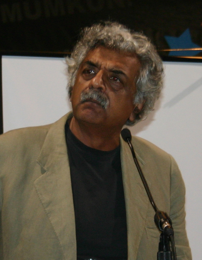 Tariq Ali, speaking at Turkey Social Forum, Istanbul, 30. October 2006. Photo by Bertil Videt